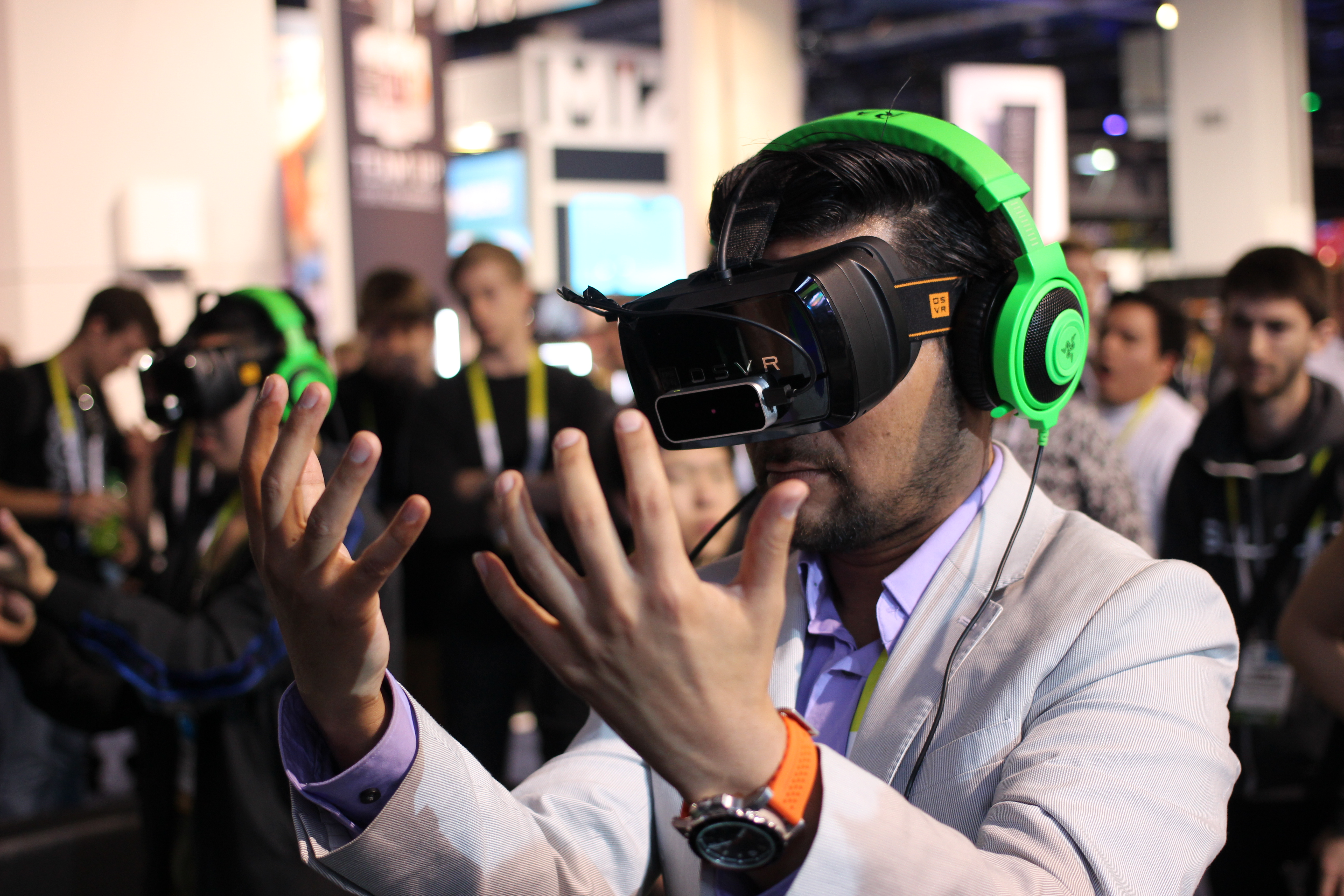 Razer OSVR Open-Source Virtual Reality for Gaming